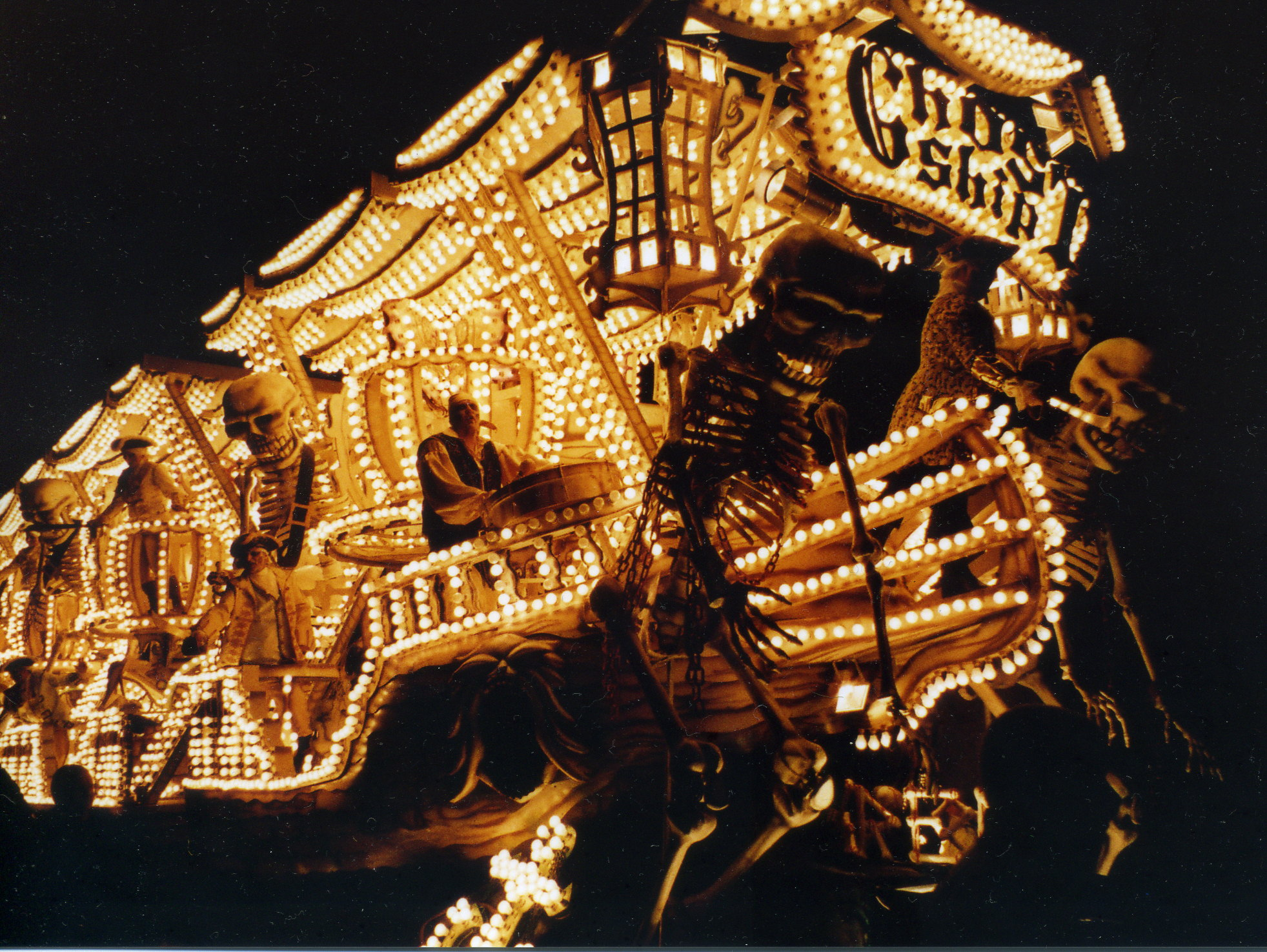 Gremlins Carnival Club entry in the 2006 Bridgwater Carnival - Ghost Ship (Deliver Us)